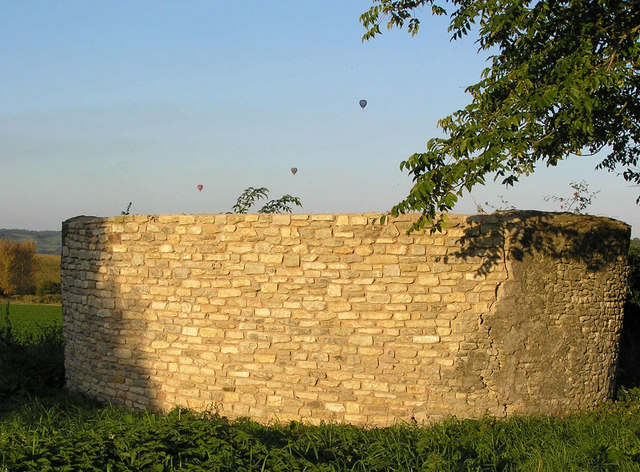 Stanton Prior Pound This village lost animal pound is a listed building, recently restored. Balloons taking off from Bath in the distance.